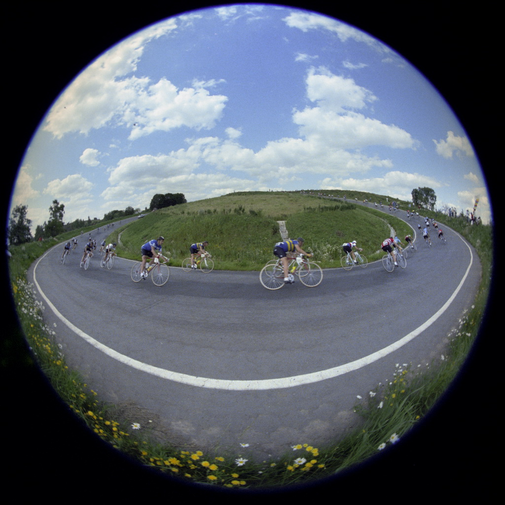 “Road bicycle racing, Krylatskoye cycling track”. 1980 Summer Olympics (the 22nd Summer Olympics). Road bicycle racing, Krylatskoye cycling track.